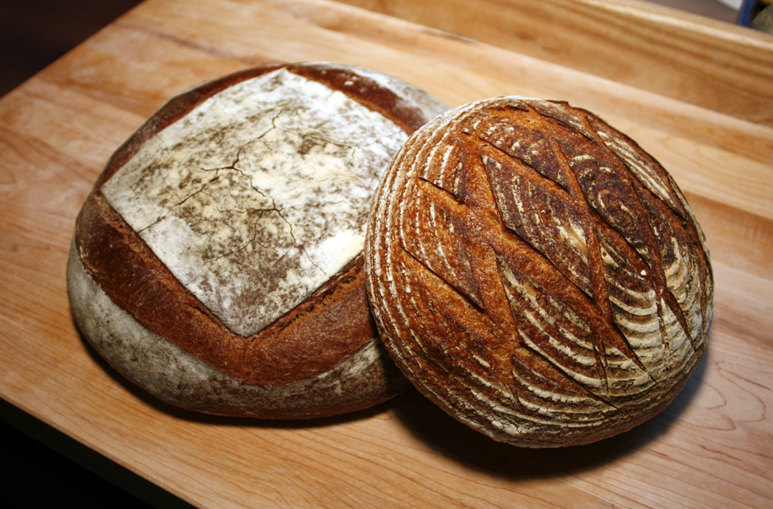 Two naturally-leavened (sourdough) loaves. Front: 90% white flour, 10% rye sourdough loaf proofed in a coiled-cane brotform. Back: A 3-pound whole-wheat miche. Both were leavened using a 100% hydration sourdough starter.